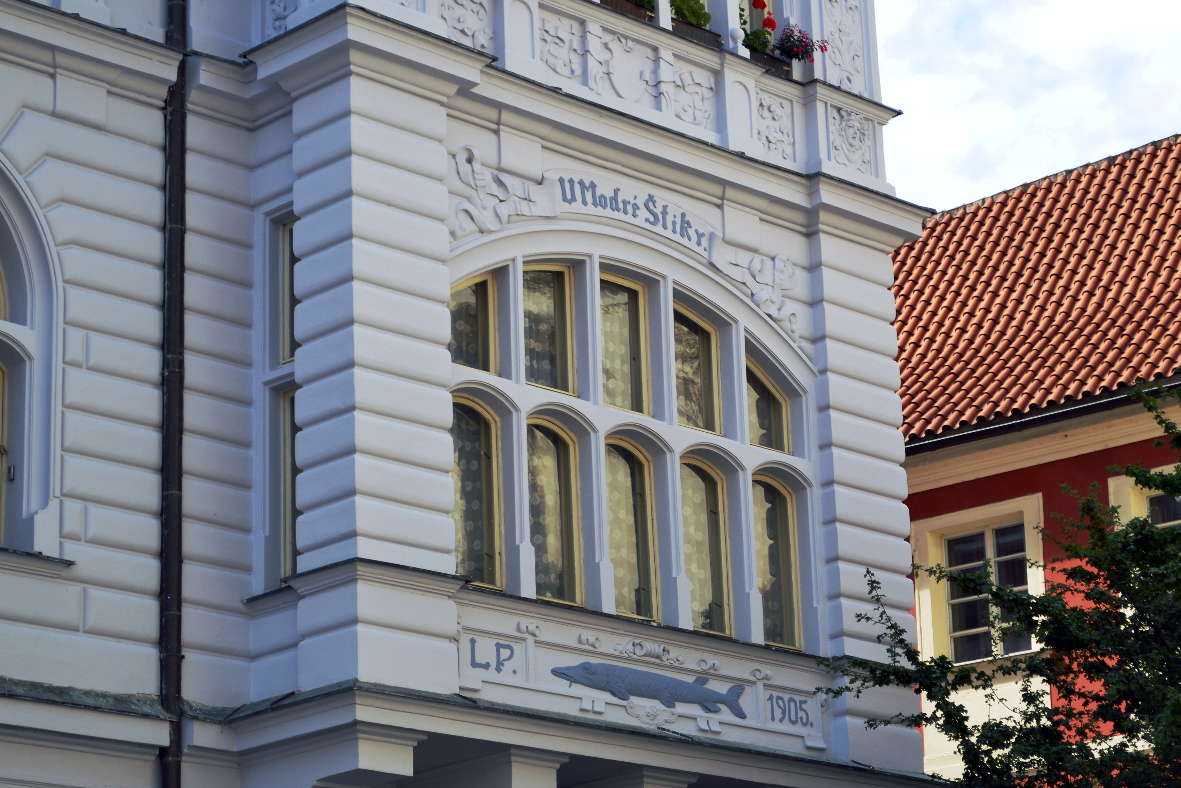 The House "U Modré štiky" (this means literally "At the Blue pike") at the intersection of Karlova and Liliová street, Old Town, Prague 1, Czech Republic. Detail of the Blue pike, view from Karlova street.